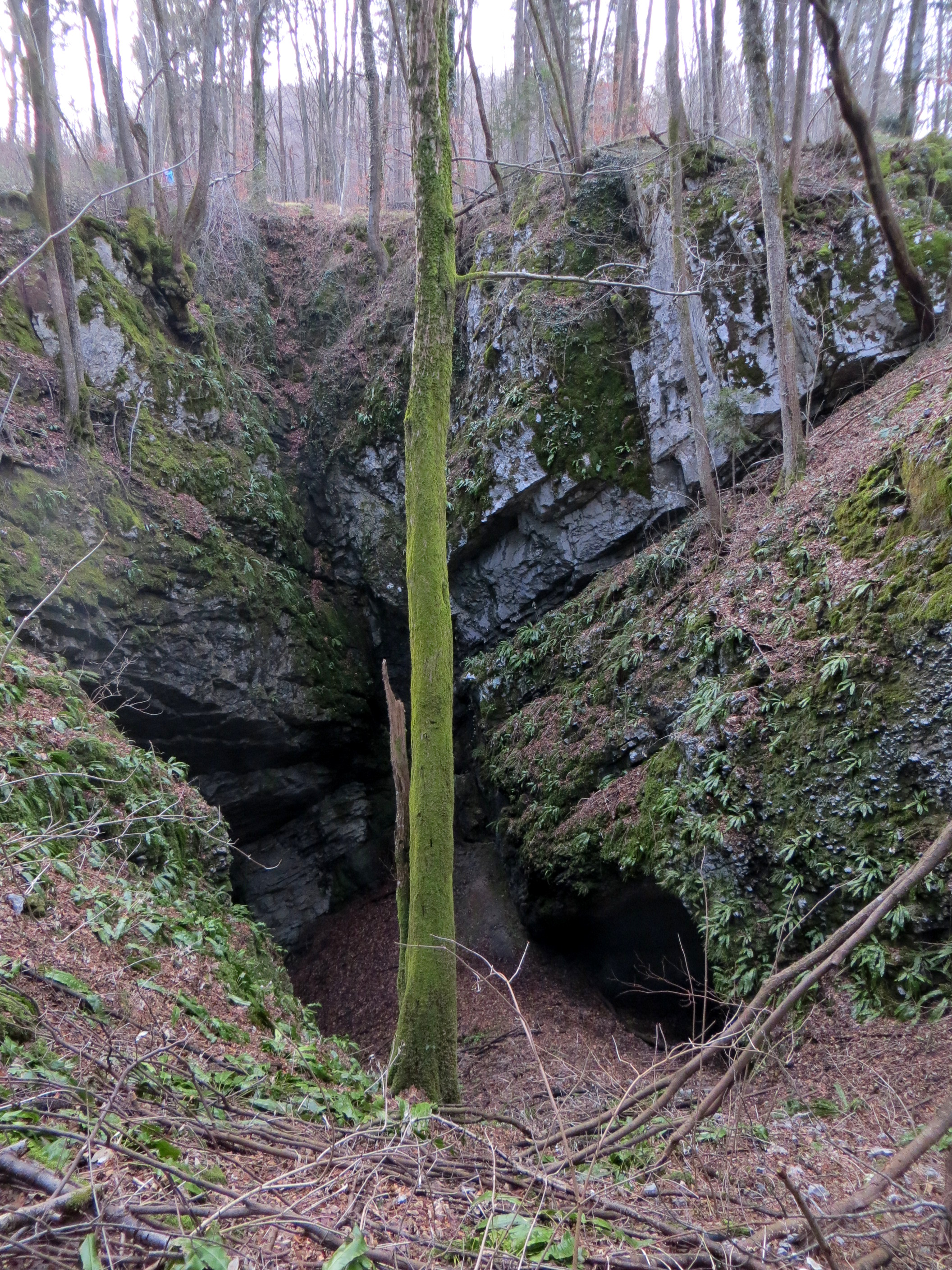 Entrance to the Ledenica Shaft northeast of Planinca, Municipality of Brezovica, Slovenia